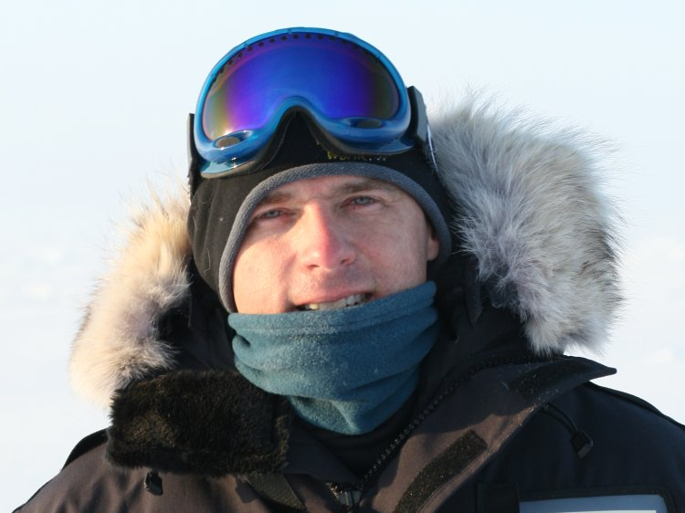 Ben Browder in the Arctic filming Stargate Continuum in early 2007.